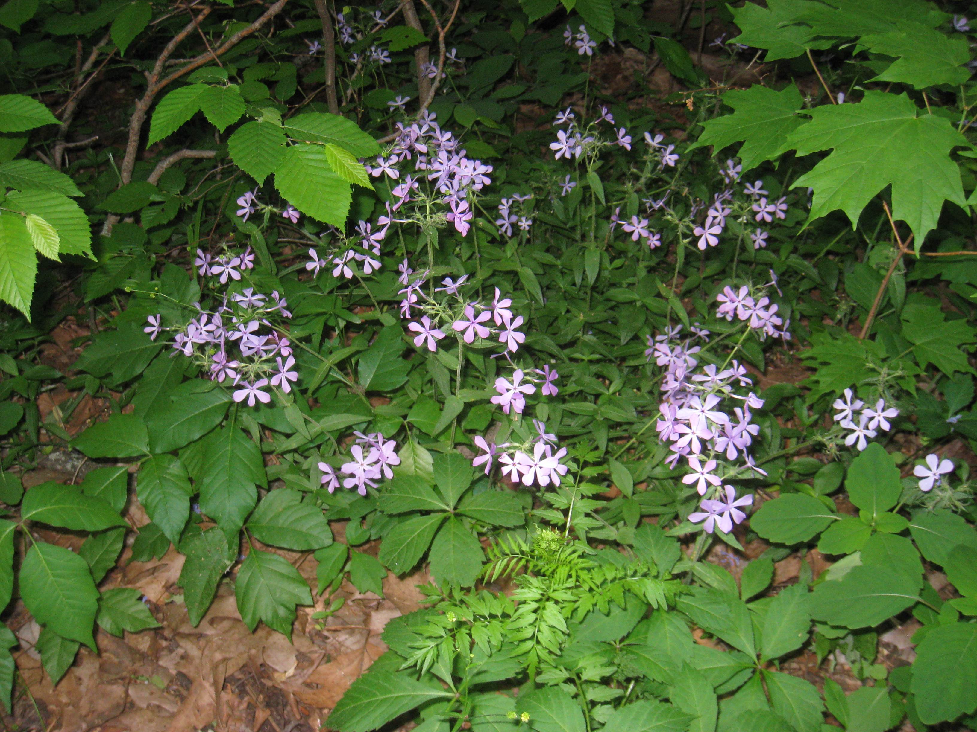 Bowman's Hill Wildflower Preserve, 1635 River Road (Pennsylvania Route 32), New Hope, Pennsylvania, USA.